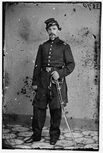 Major Daniel H. Harkins of the 1st Regiment New York Volunteer Cavalry. Harkins (1836-1902) was also a popular stage actor before and after the war.